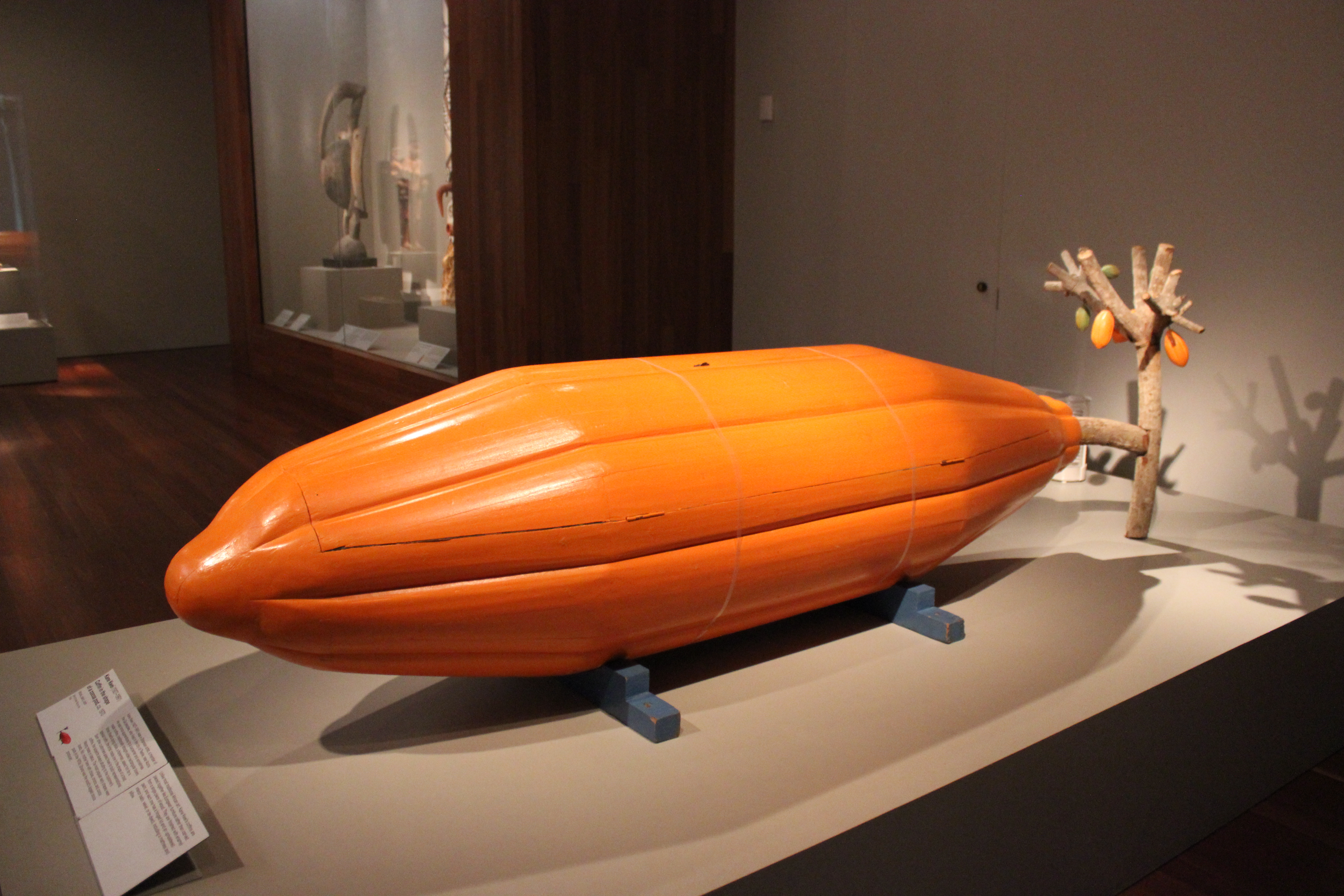 Ghanian coffin, shaped like a cacao fruit